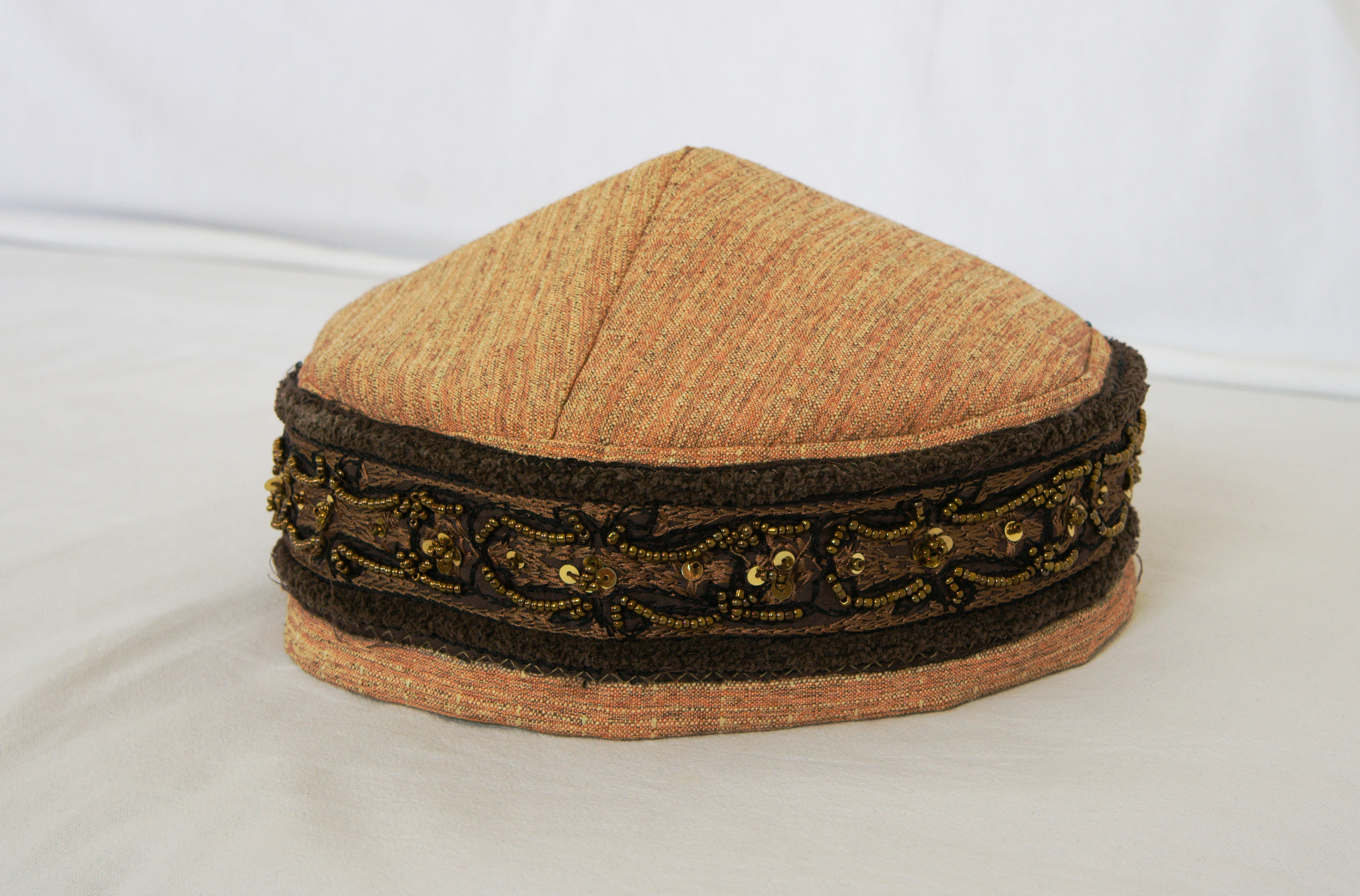 Handmade Crimean Tatar hat - Tubeteika.